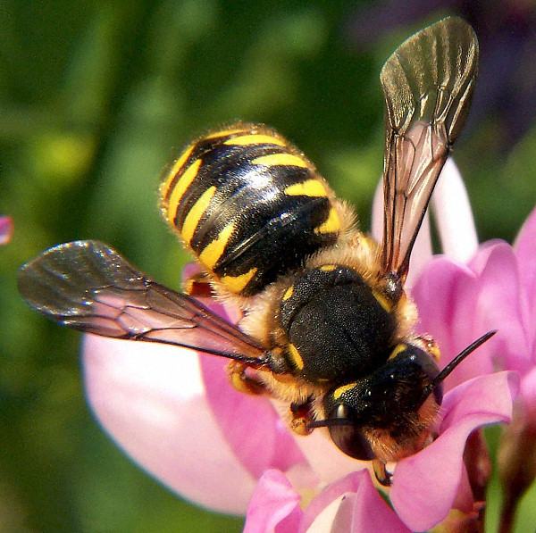 jpeg image,Anthidium manicatum commonly know as the "wool carder bee". This is an invasive species accidentally introduced to North America from Europe; more pictures and info at